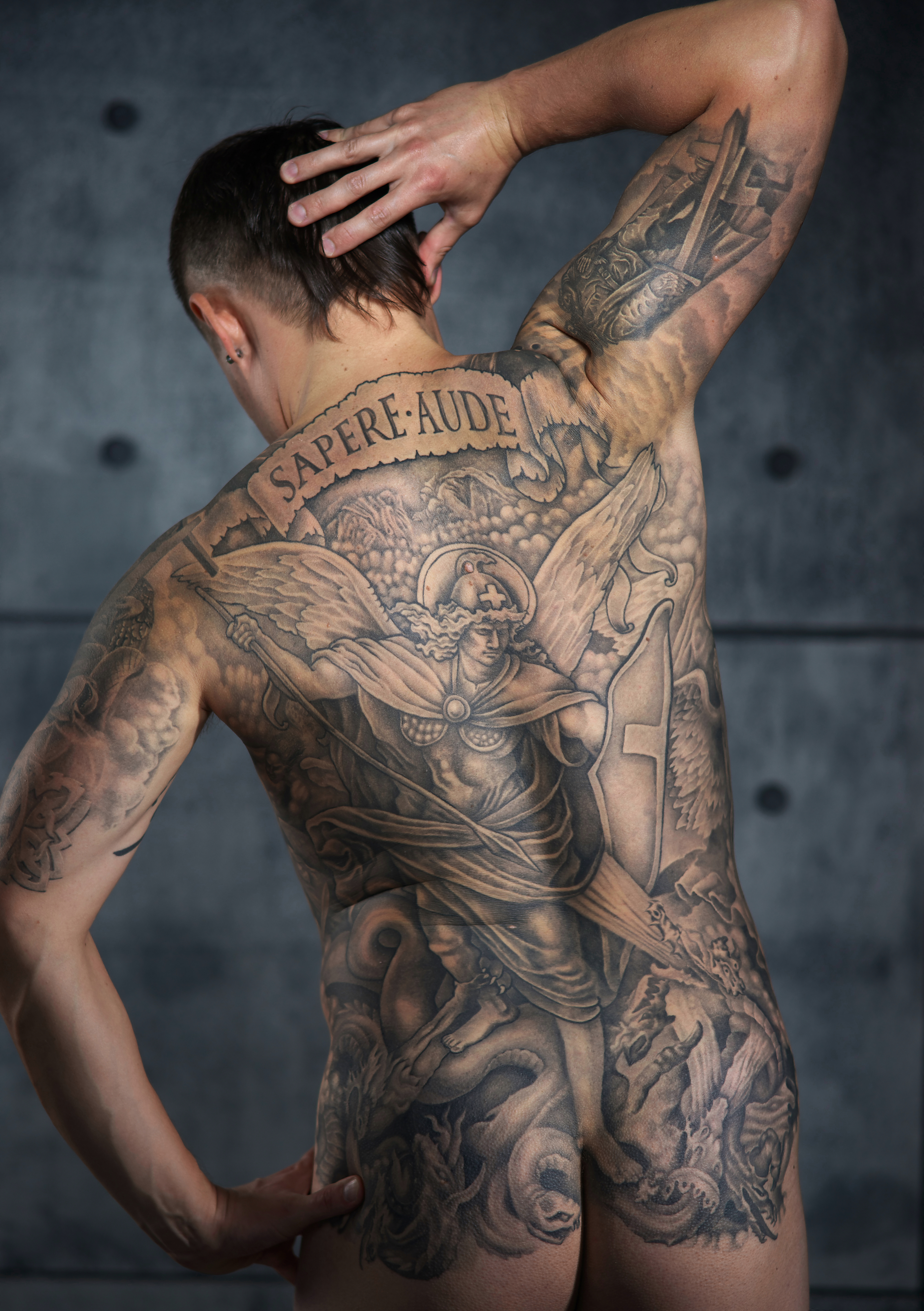 Man with a full back tattoo. Michael and the Dragon. Adapted from Die Bibel in Bildern (Revelation) engraving. Enlightenment motto "Sapere aude" is tattooed in the upper back.